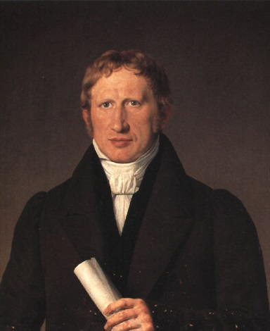 Portraet af conferensråd Ludvig Christian de Brinck Seidelin , 1832